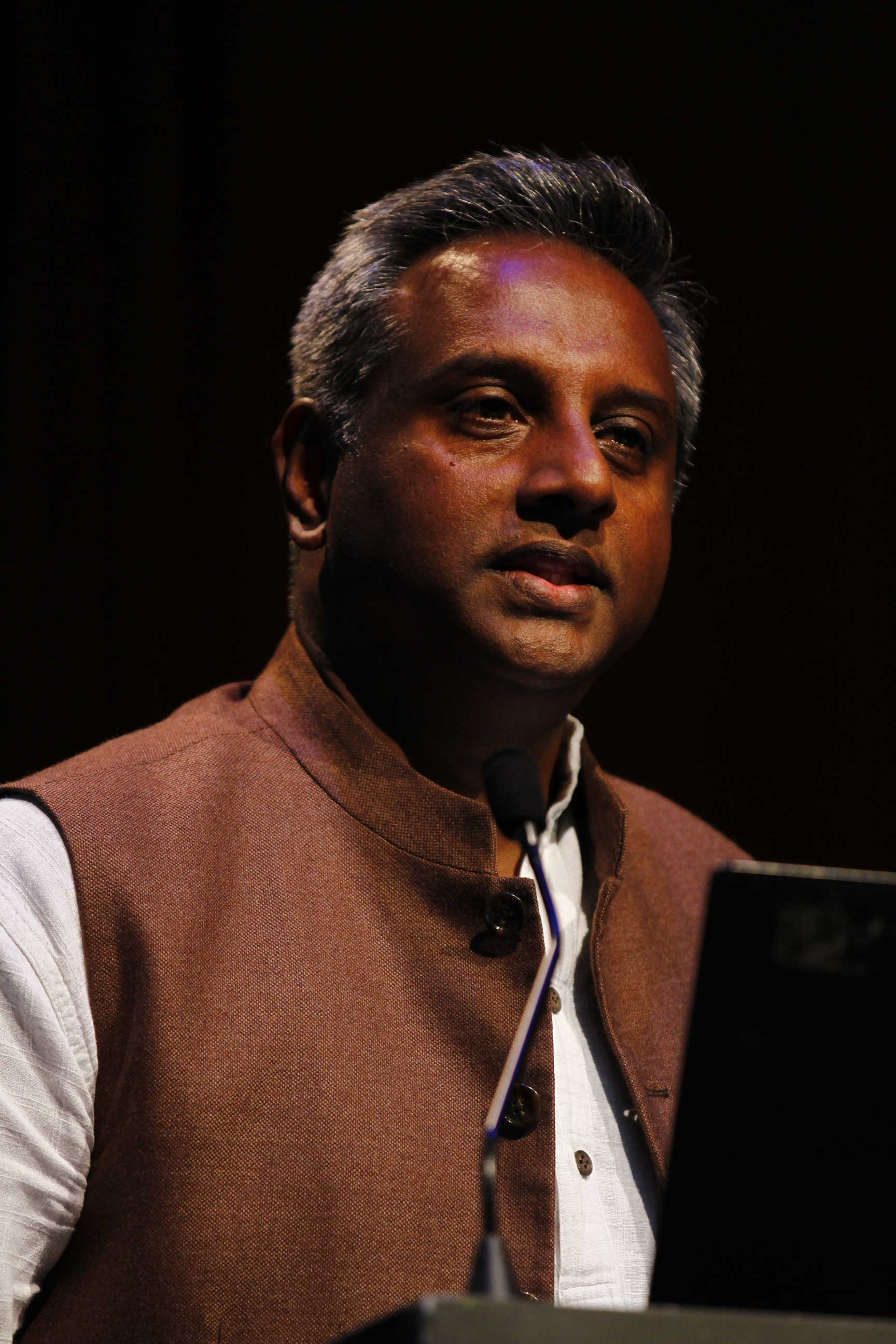 Opening ceremony at Wikimania 2014